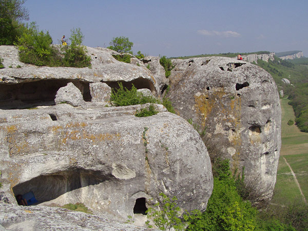 Eski-Keremen - "Cave city" in Crimea (Ukraine)